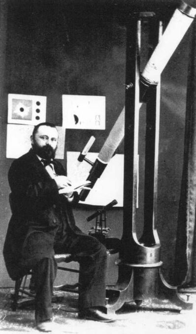 Astronomer Ernst Wilhelm Leberecht Tempel at his observatory in Marseille.